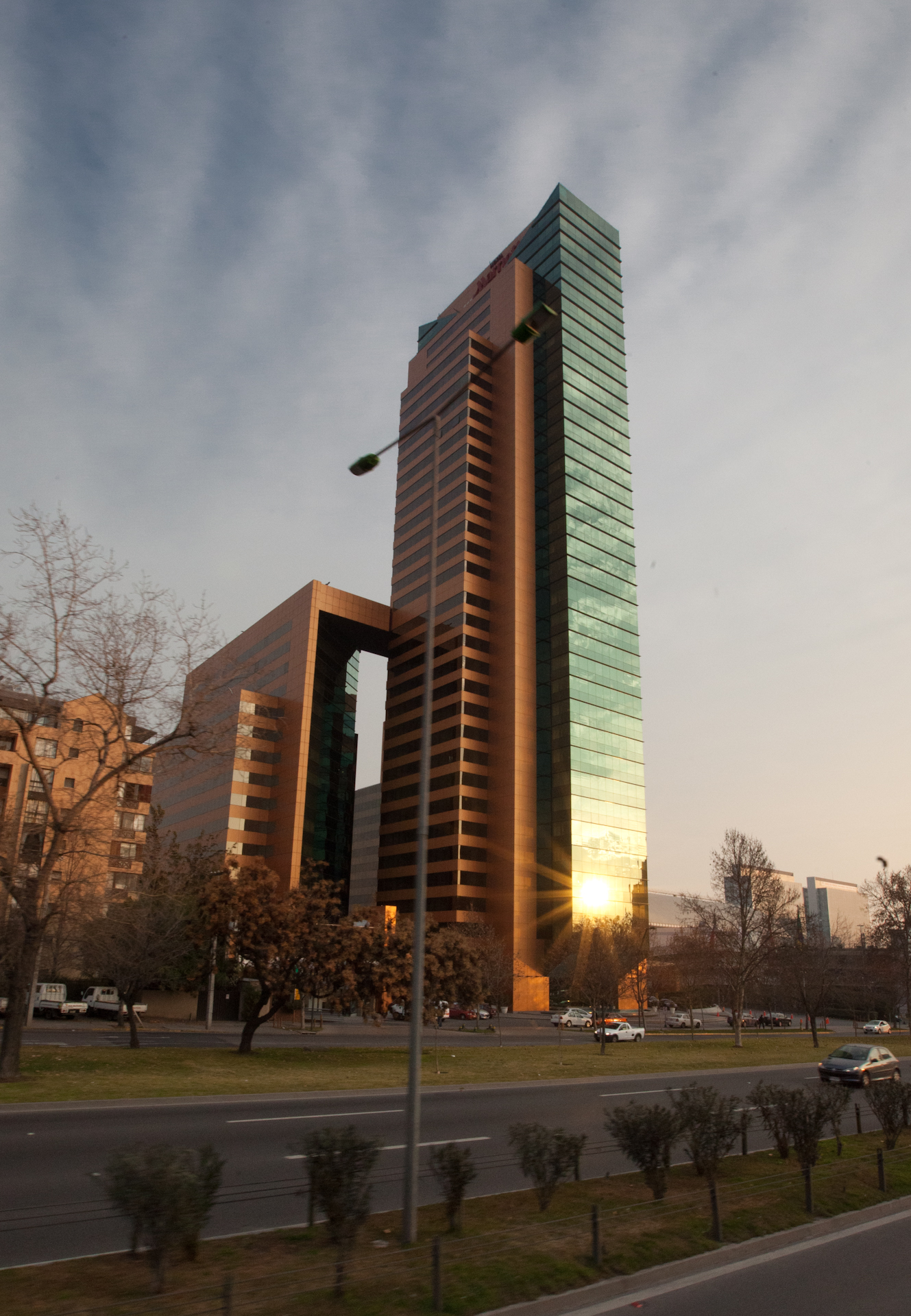 Hotel Marriott Santiago de Chile Av Presidente Kennedy 5741